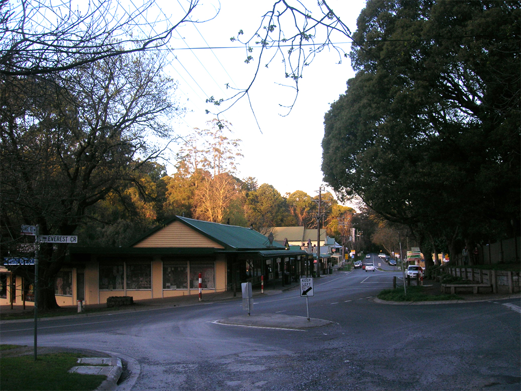 Main street Olinda, Victoria in early Spring, 2007